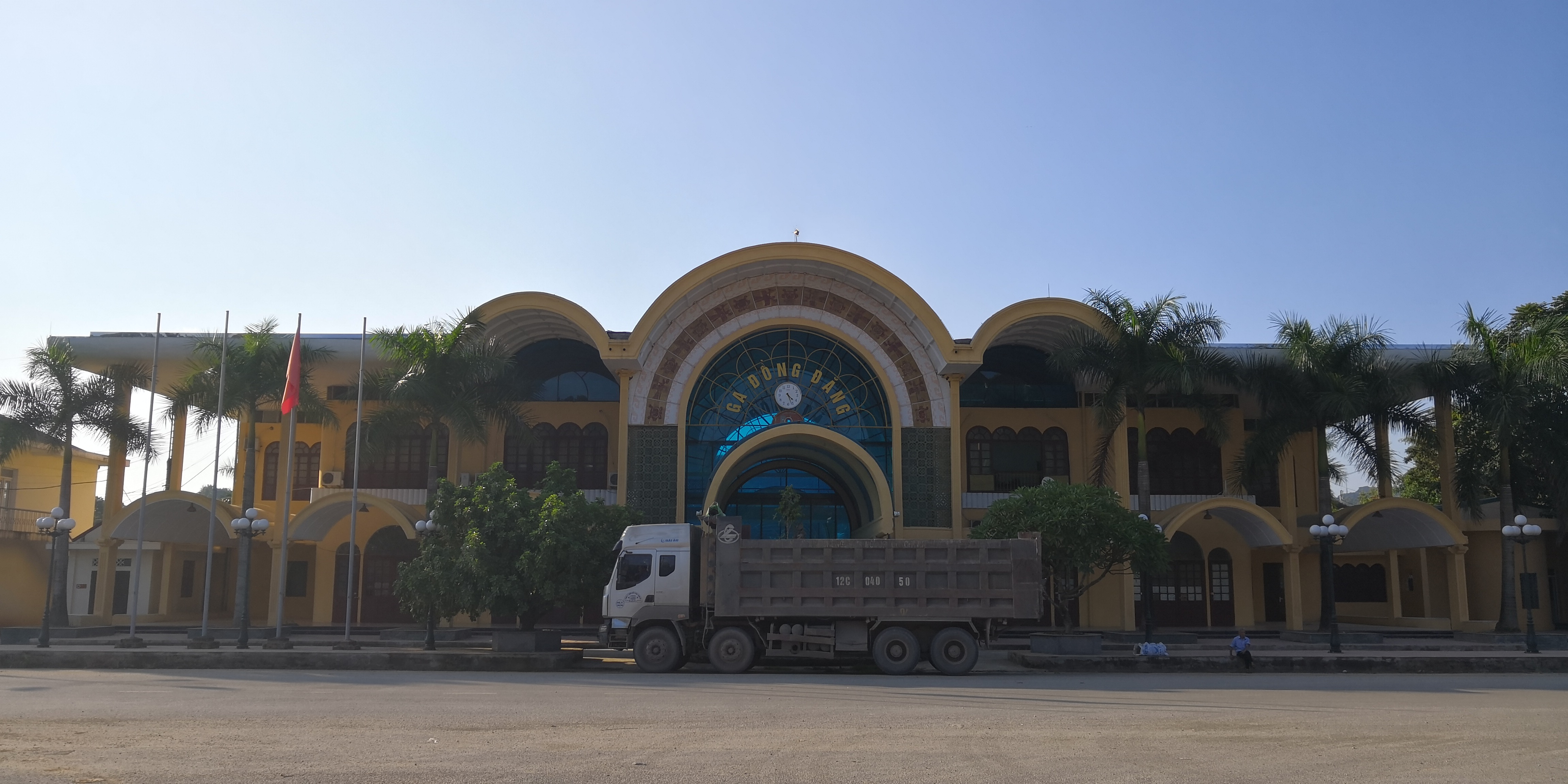 Dong Dang Railway Station (Sep 15, 2018)